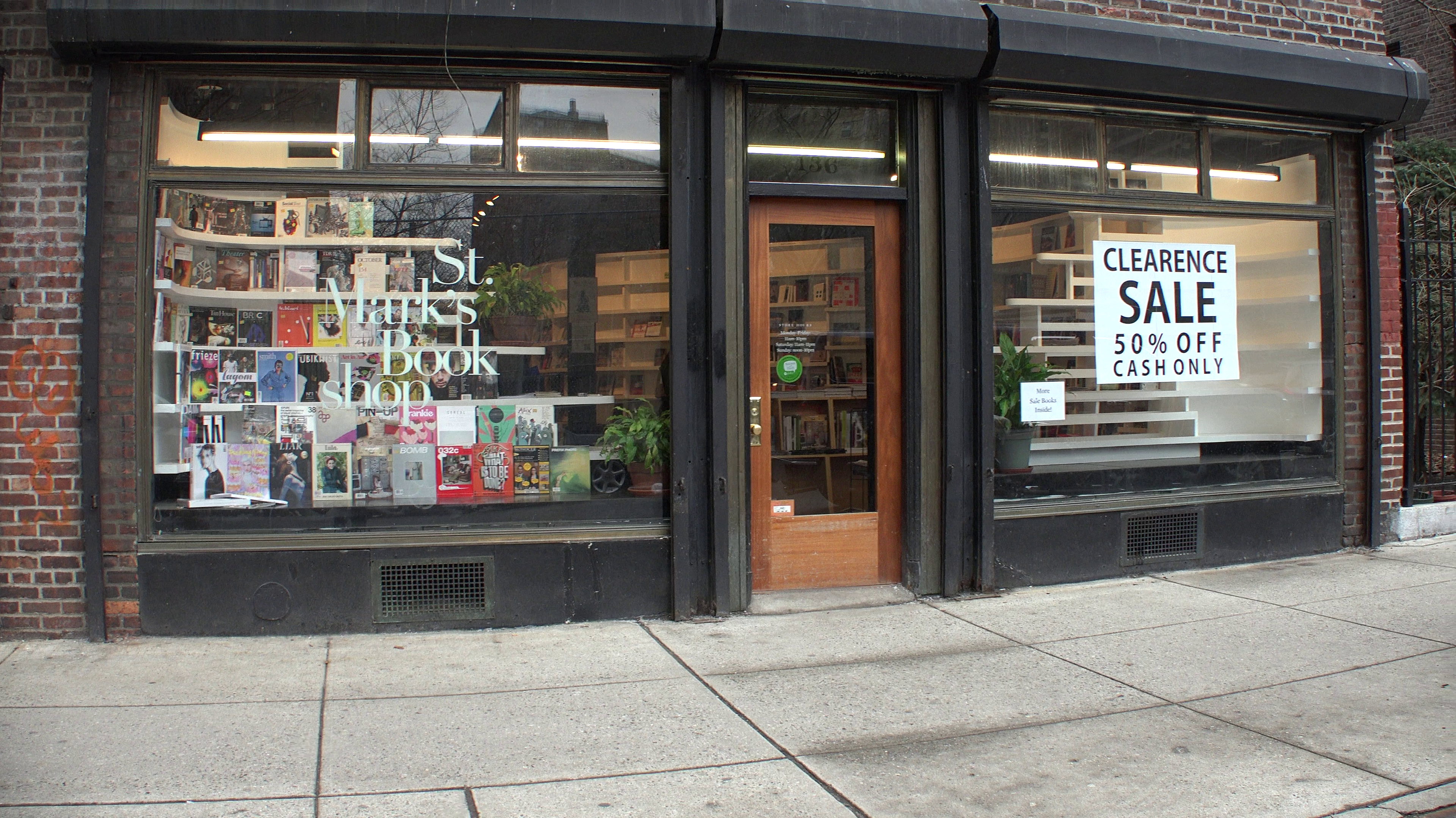 St Marks Bookstore, showing the clearance sale in New York City